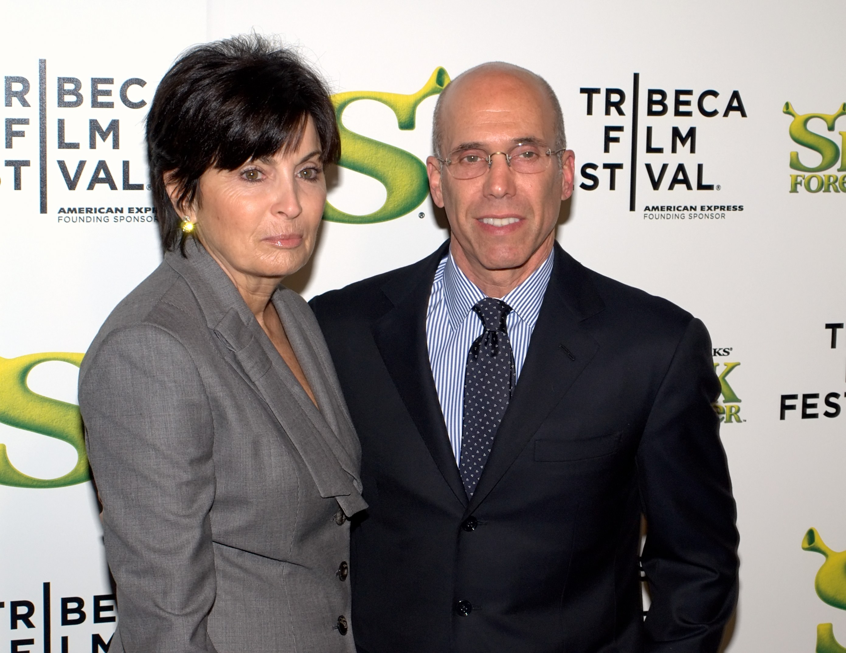 Jeffrey Katzenberg and his wife Marilyn at the 2010 Tribeca Film Festival.